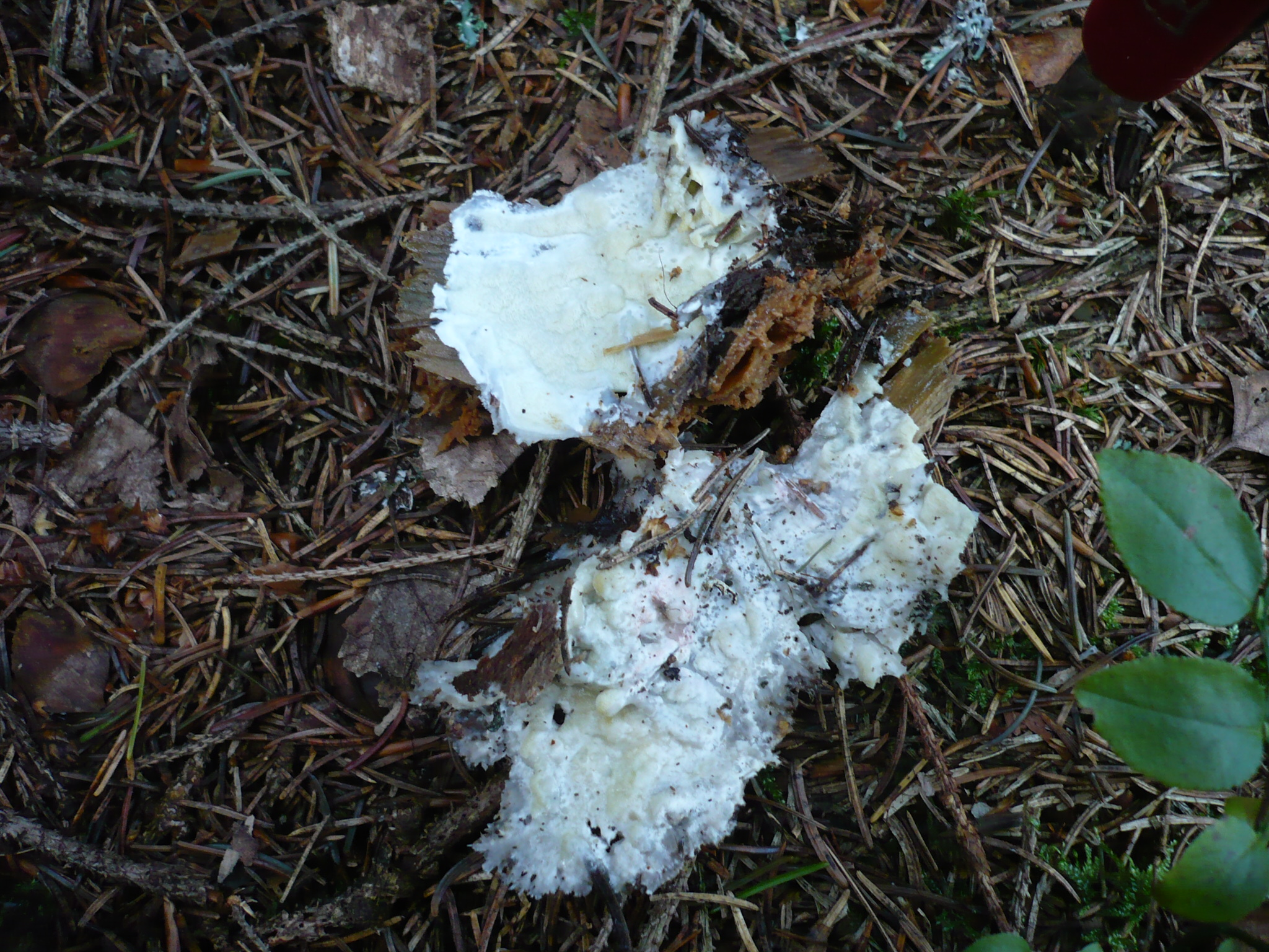 The fungus Physisporinus vitreus. Photographed in Luznicky Vrch, Luznice, Southern Bohemia, Czech Republic.